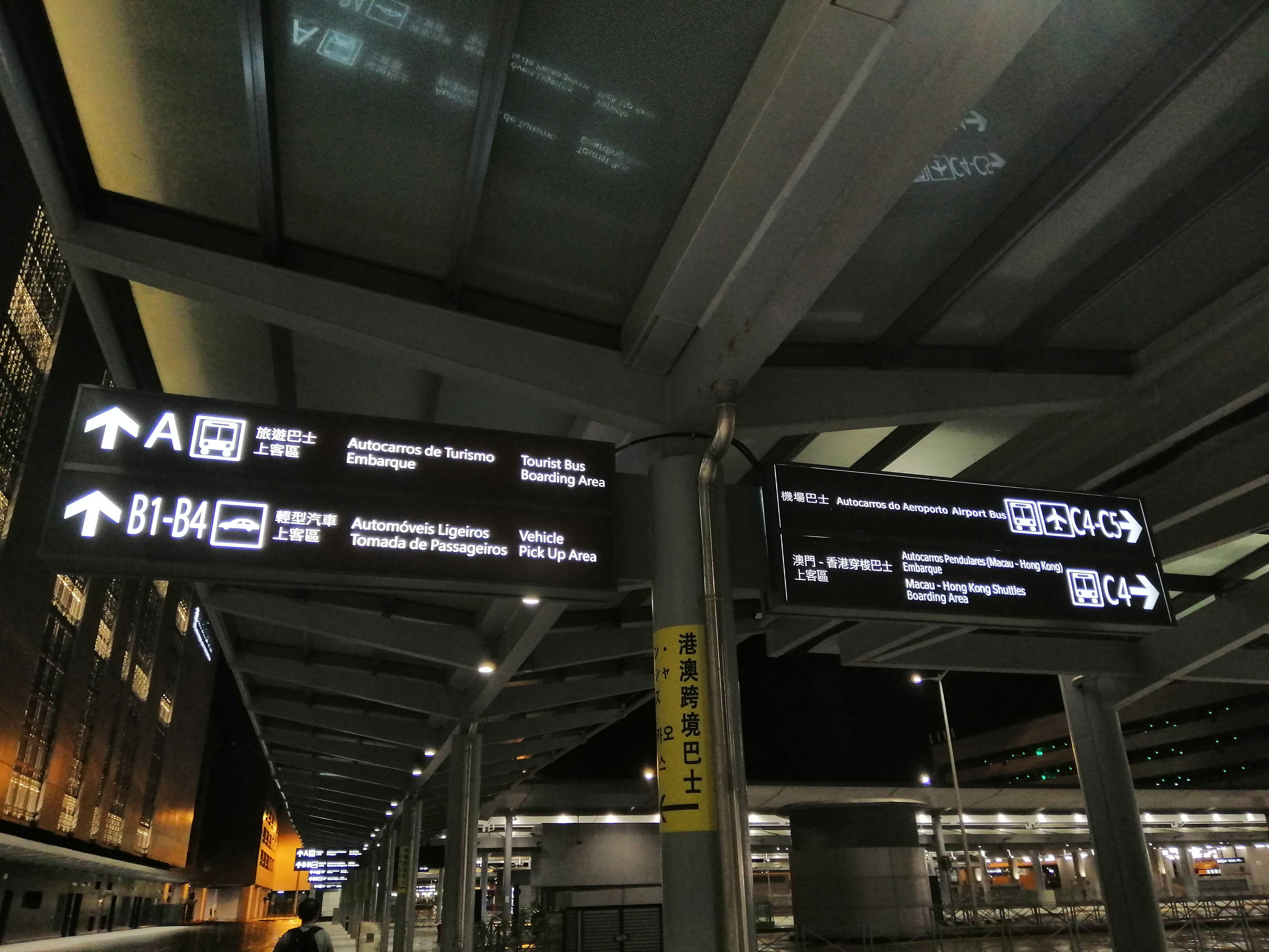 HZMB macau